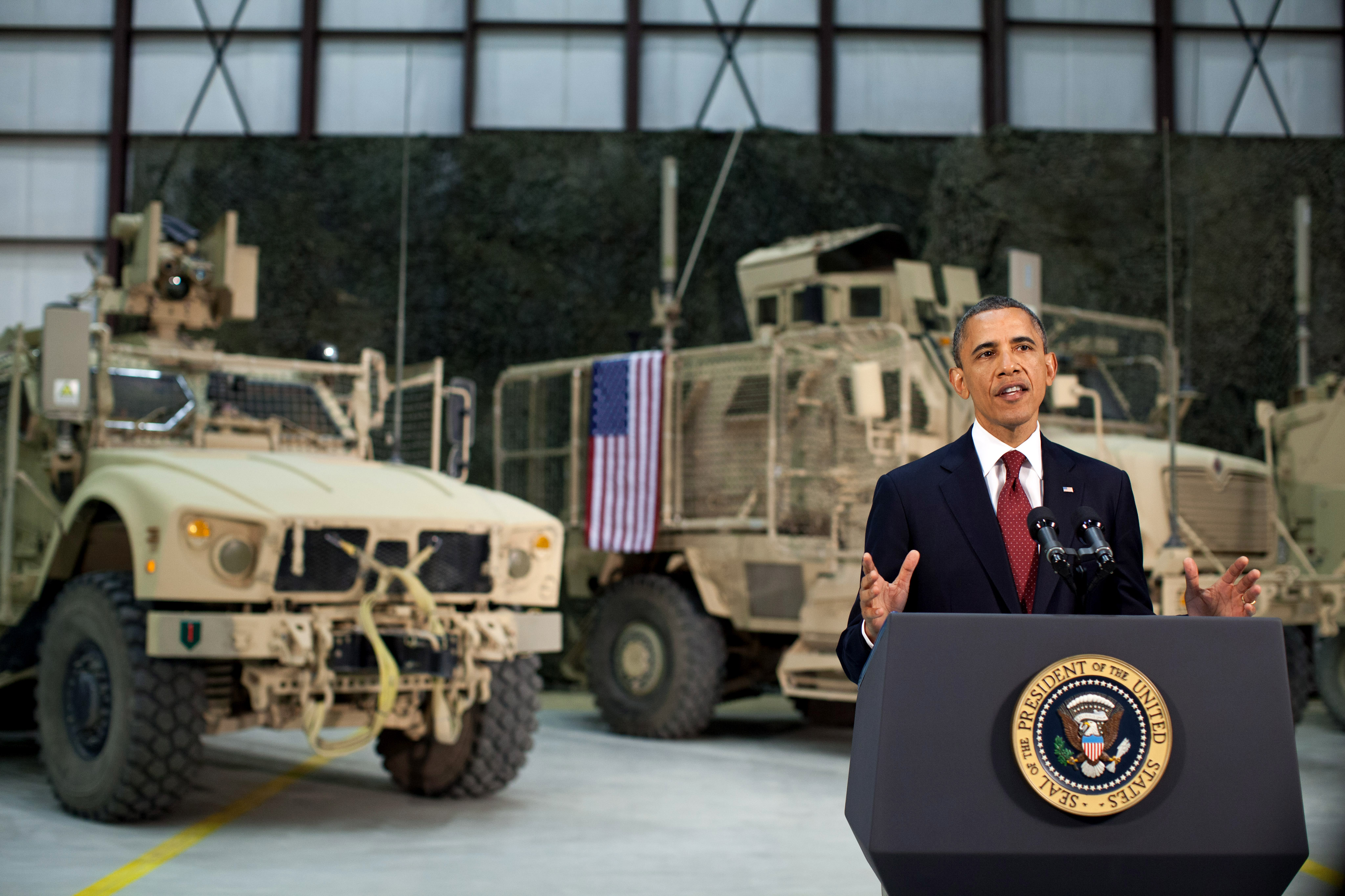 United States President Barack Obama addresses the people of the United States from Bagram Airfield, Afghanistan on 2 May 2012.